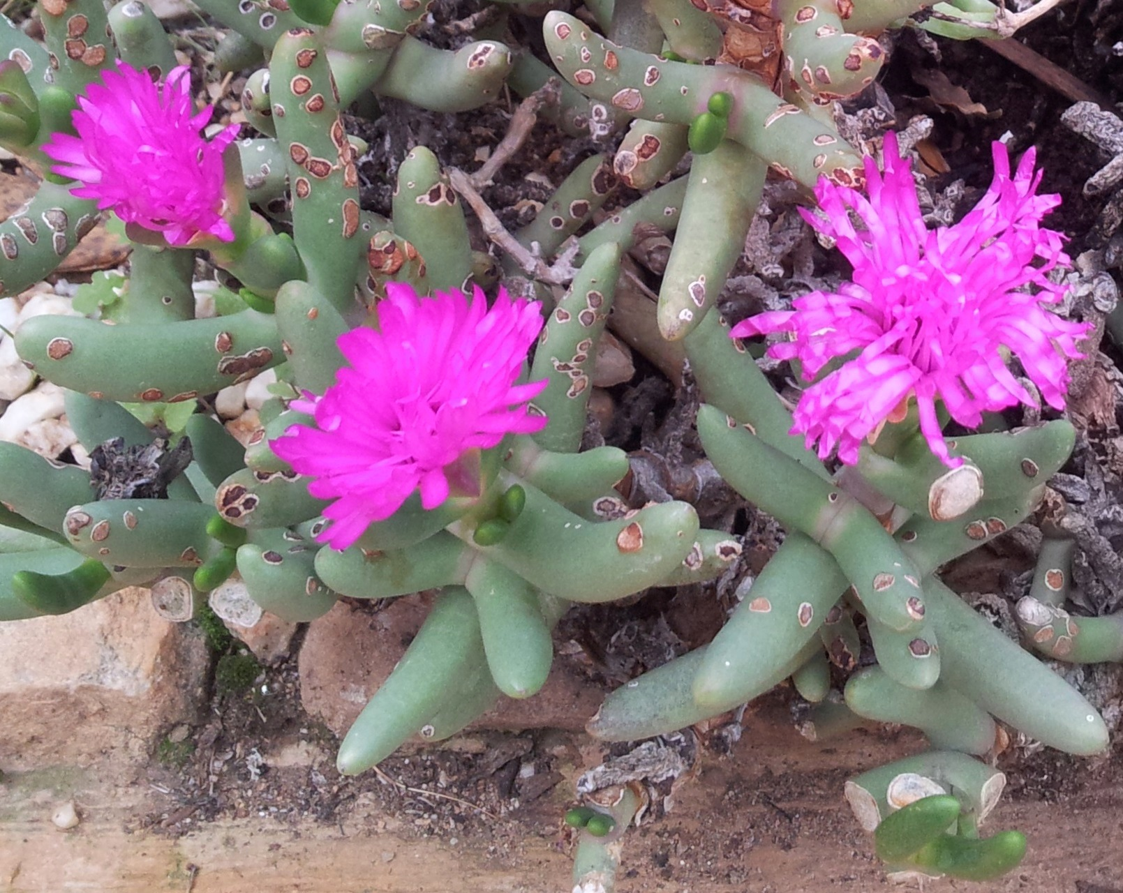 Namaquanthus vanheerdii - Kirstenbosch garden